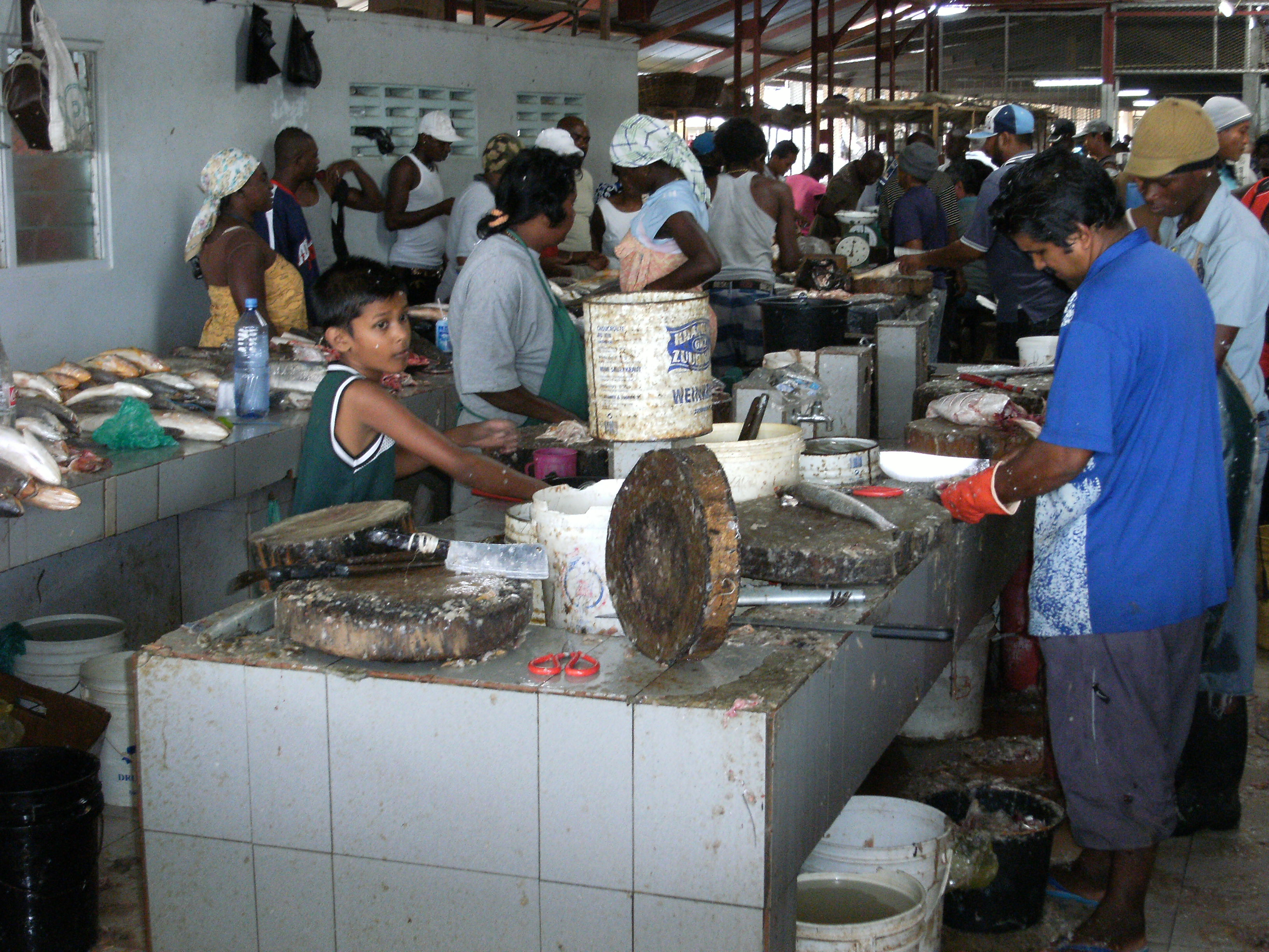 Lelydorp market.